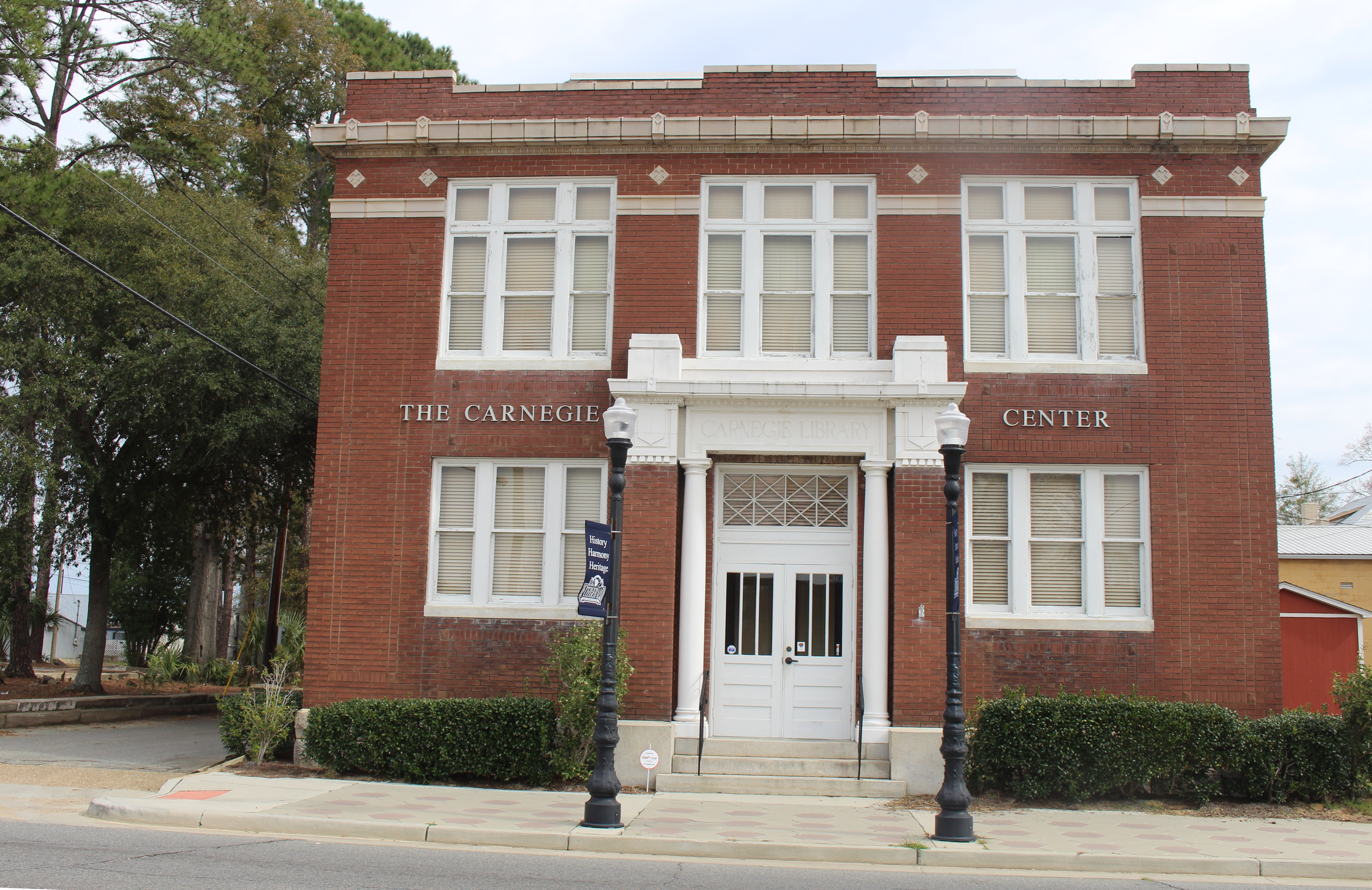 The Carnegie Center, Fitzgerald, Ben Hill County, Georgia. Originally, the Carnegie Library of Ben Hill County